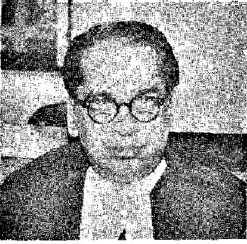 Koka Subbarao is the first chief justice of Andhra Pradesh High court